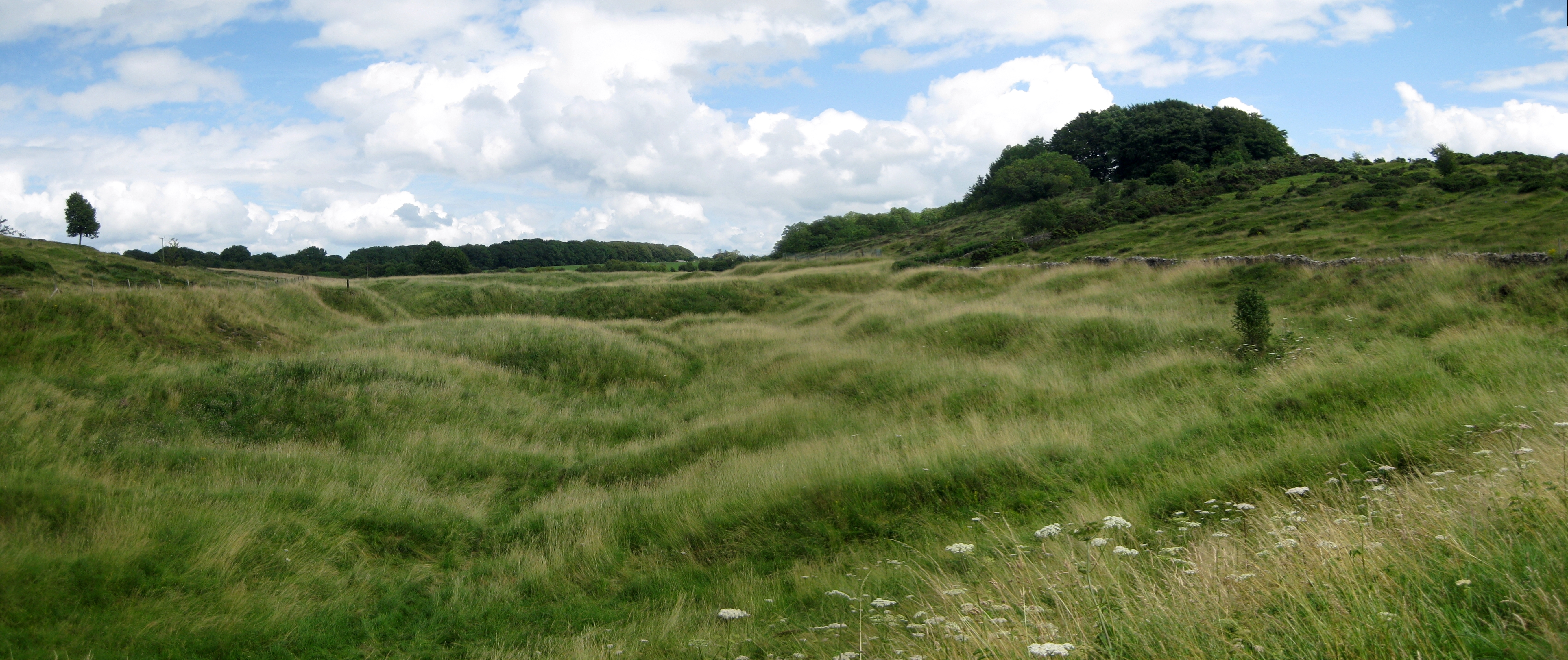 Panorama looking east at the lead mines near Charterhouse, Somerset, UK